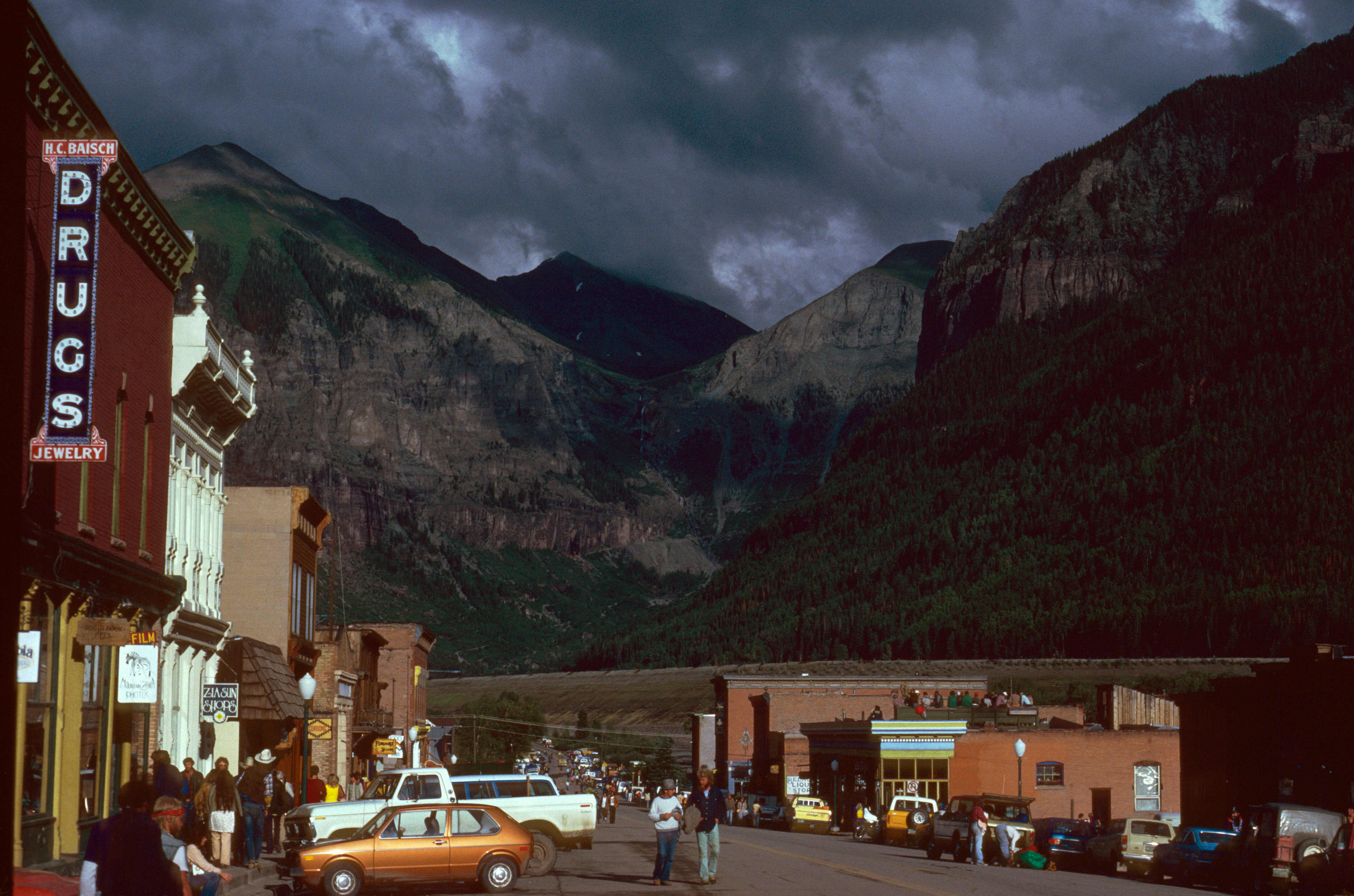 Personal photograph by Scott Williams